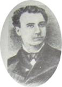 Armenian author Takvor Nalyan